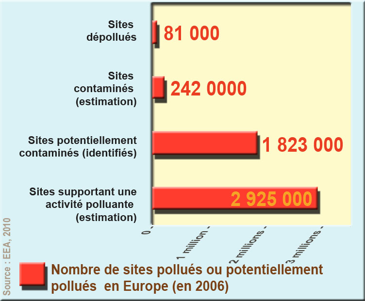 status of identification of sites polluted or cleaned‑up sites in Europe (in 2006).